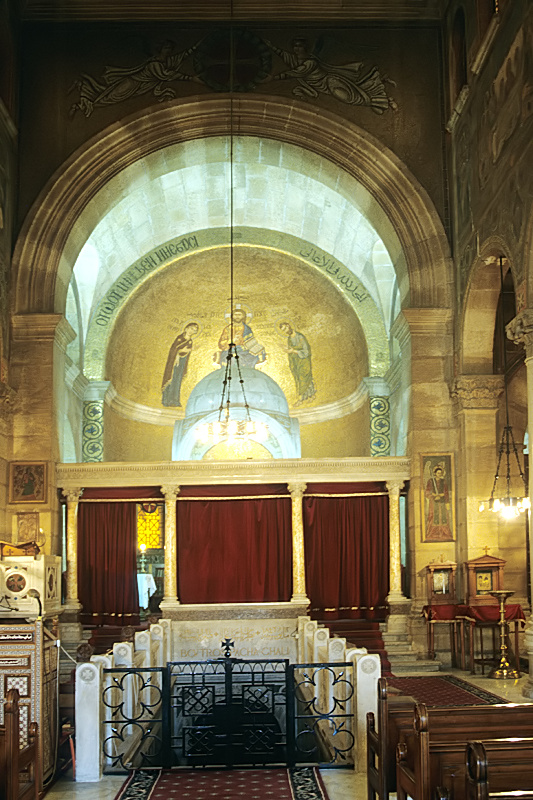 Inside the Church of SS Peter and Paul (Boutrosiya), el-'Abbasiya, Cairo, Egypt